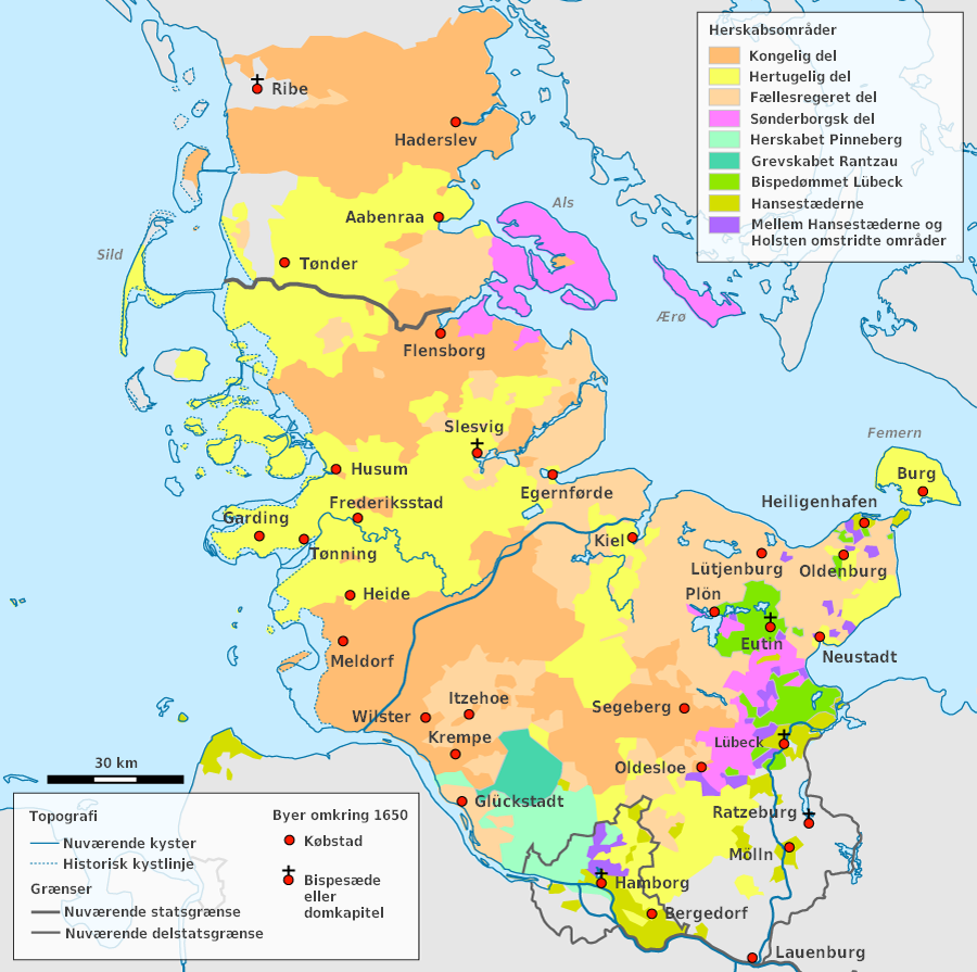 Map of Schleswig-Holstein after 1650 (danish version)